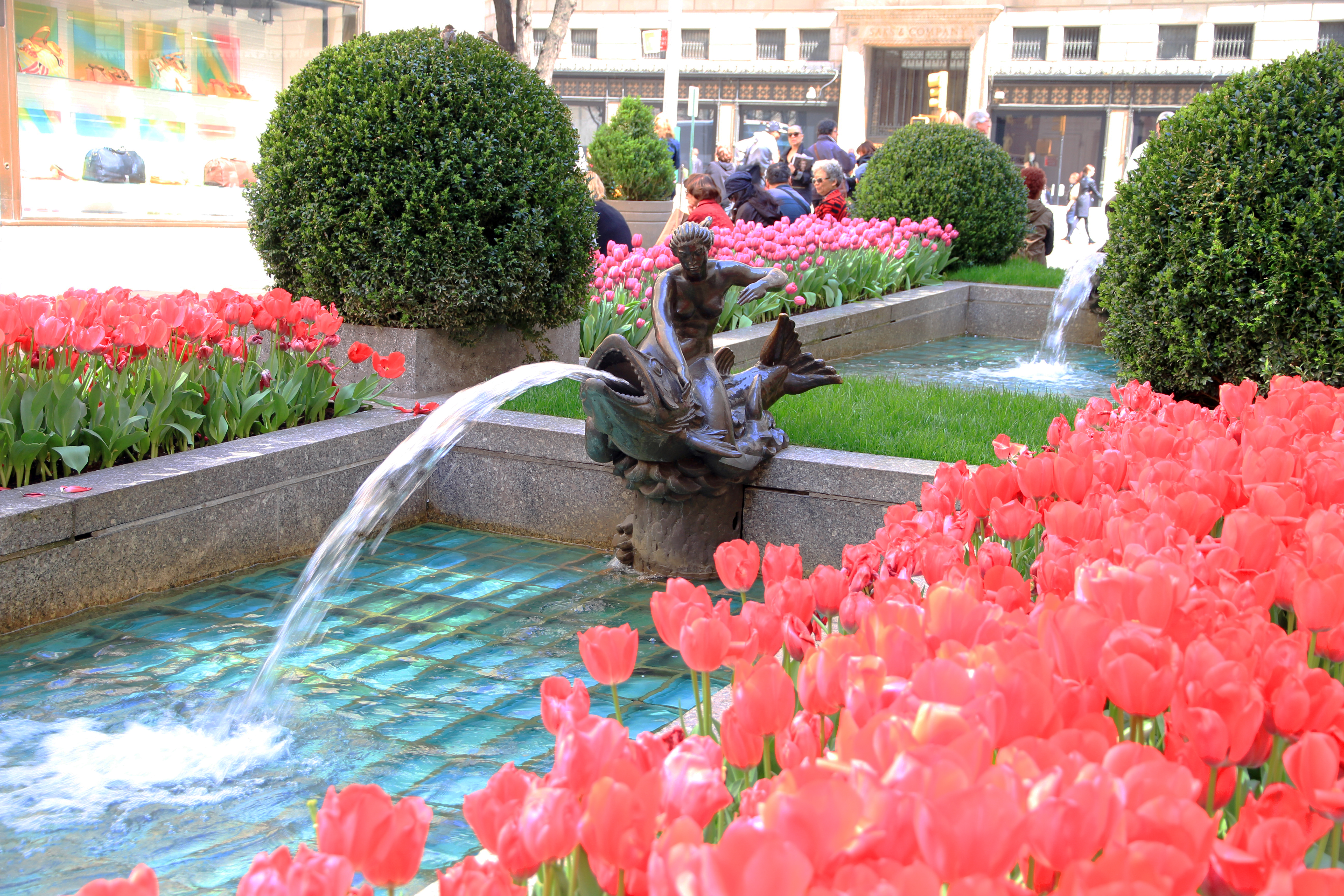 Channel Gardens